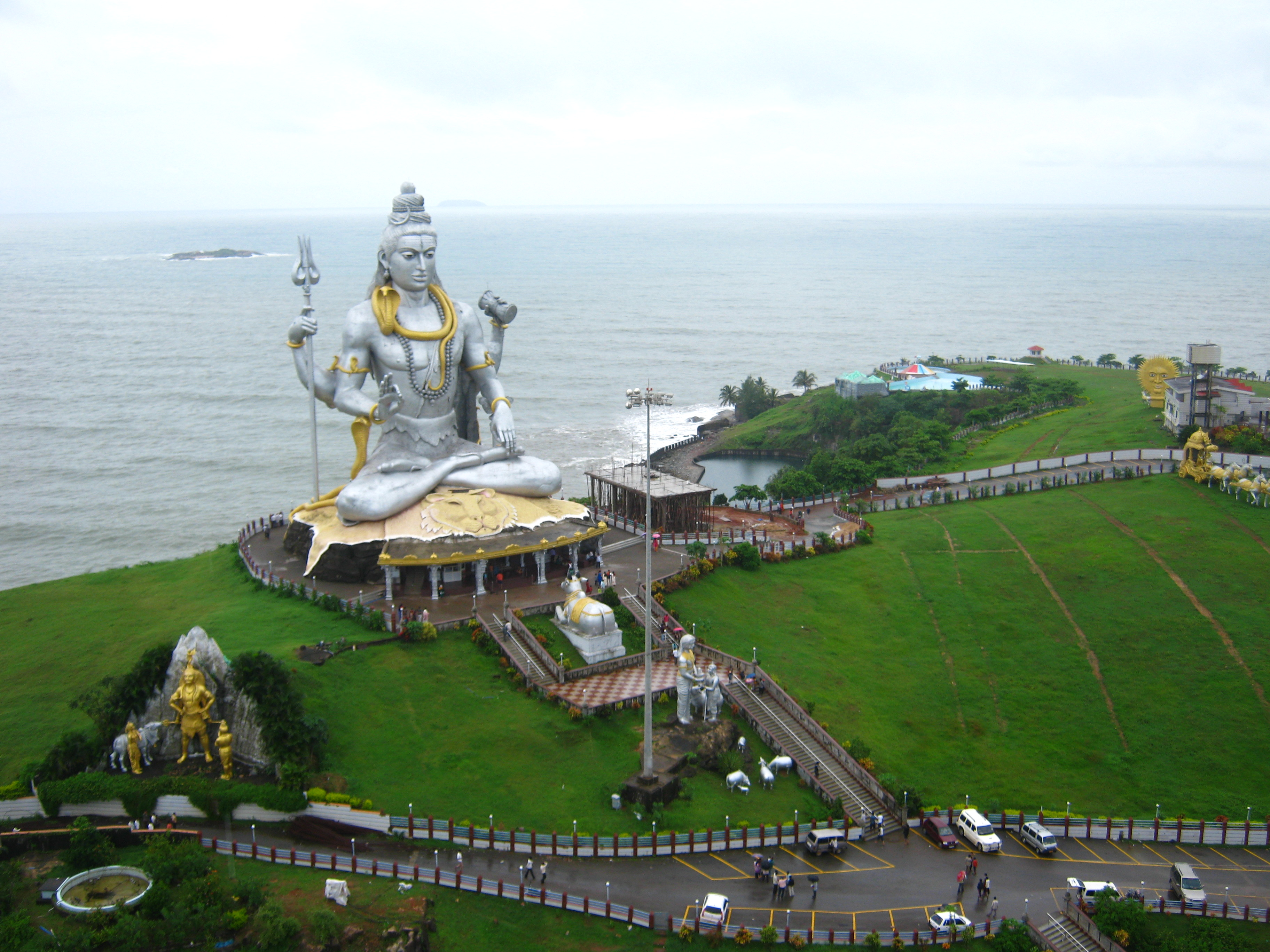 Murudeshwara